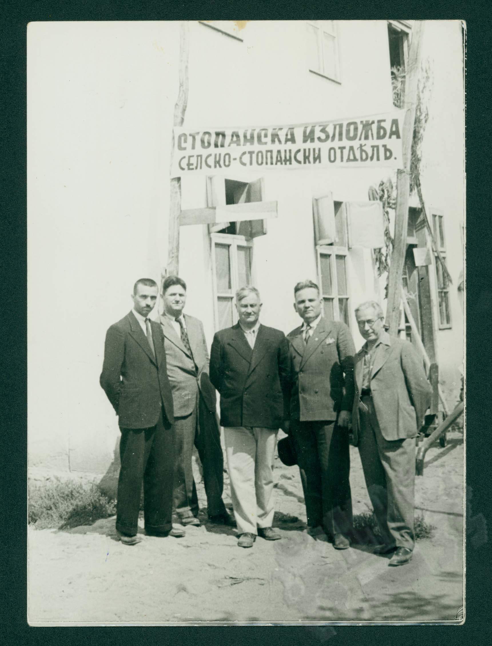 Photo of Mayor Gozo Mitov at opening Economic exhibition in Ferdinand (Montana), 1935